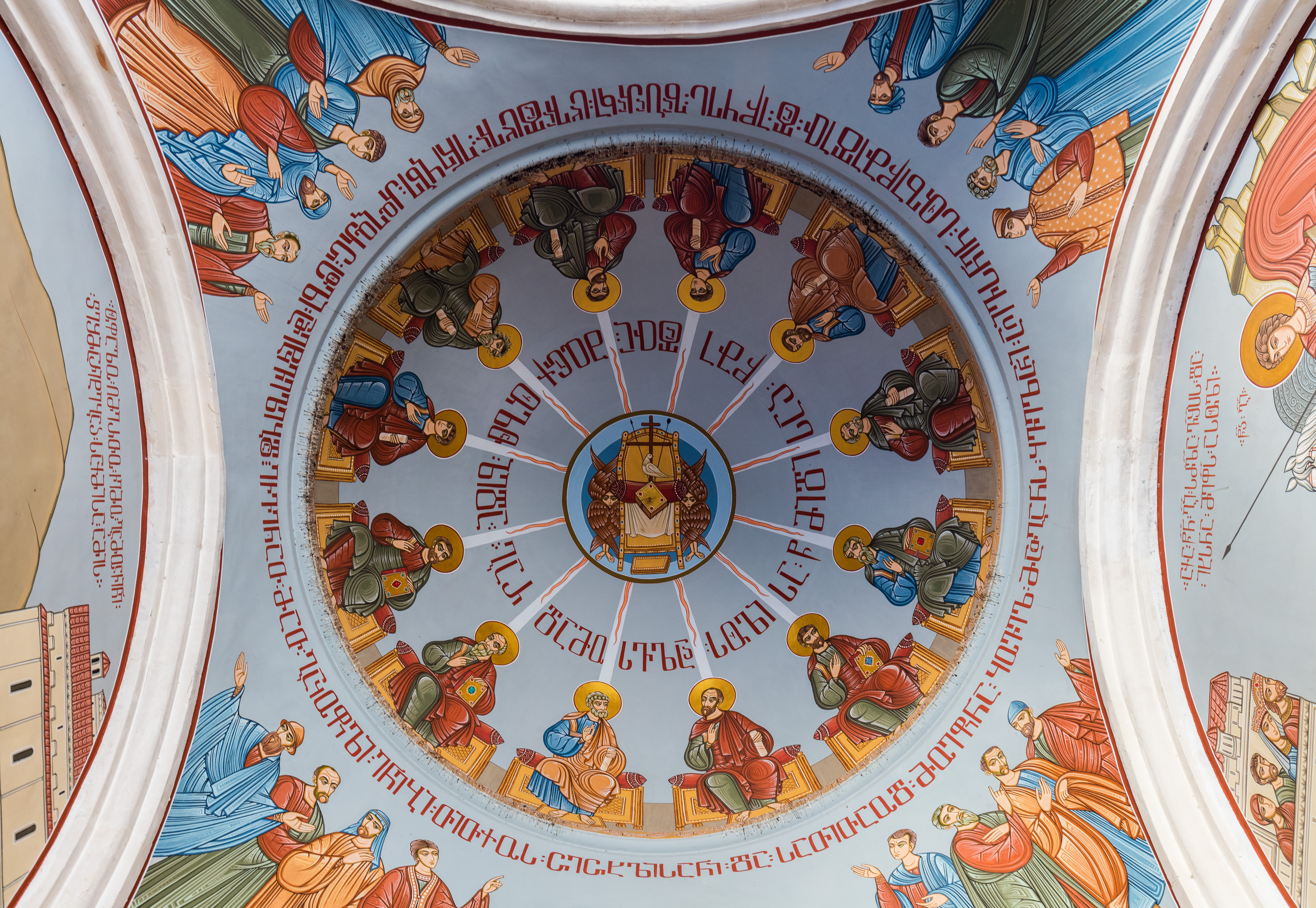 Iglesia Kashueti, Tiflis, Georgia